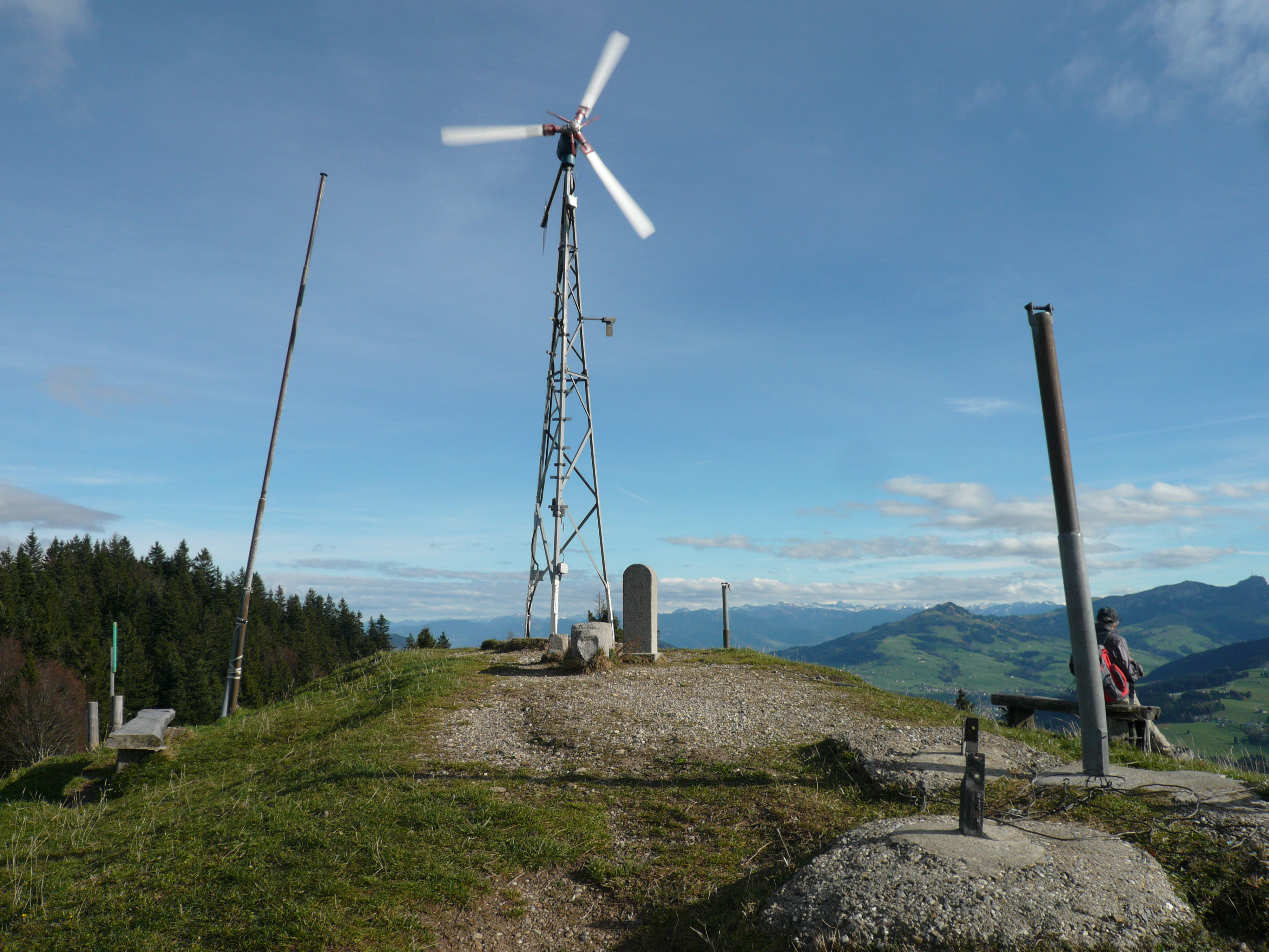 On top of mountain Hundwiler Hoehe, Switzerland